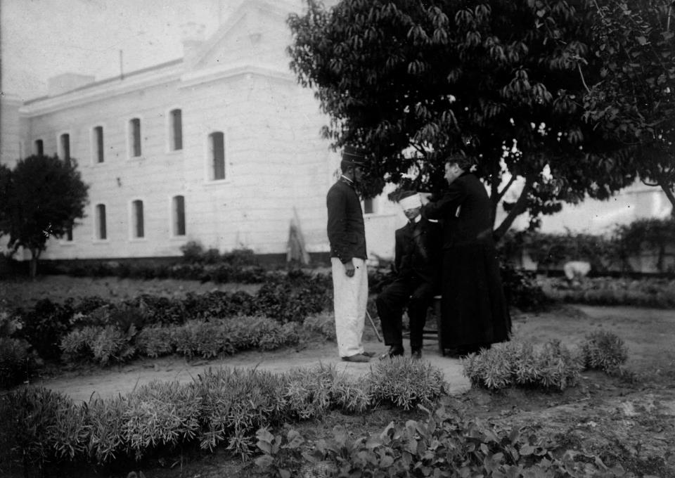 Cayetano Grossi , primer asesino serial de la historia argentina, recibe asistencia espiritual momentos antes de ser ejecutado en la Penitenciaría Nacional de la calle Las Heras, 6 de abril de 1900.